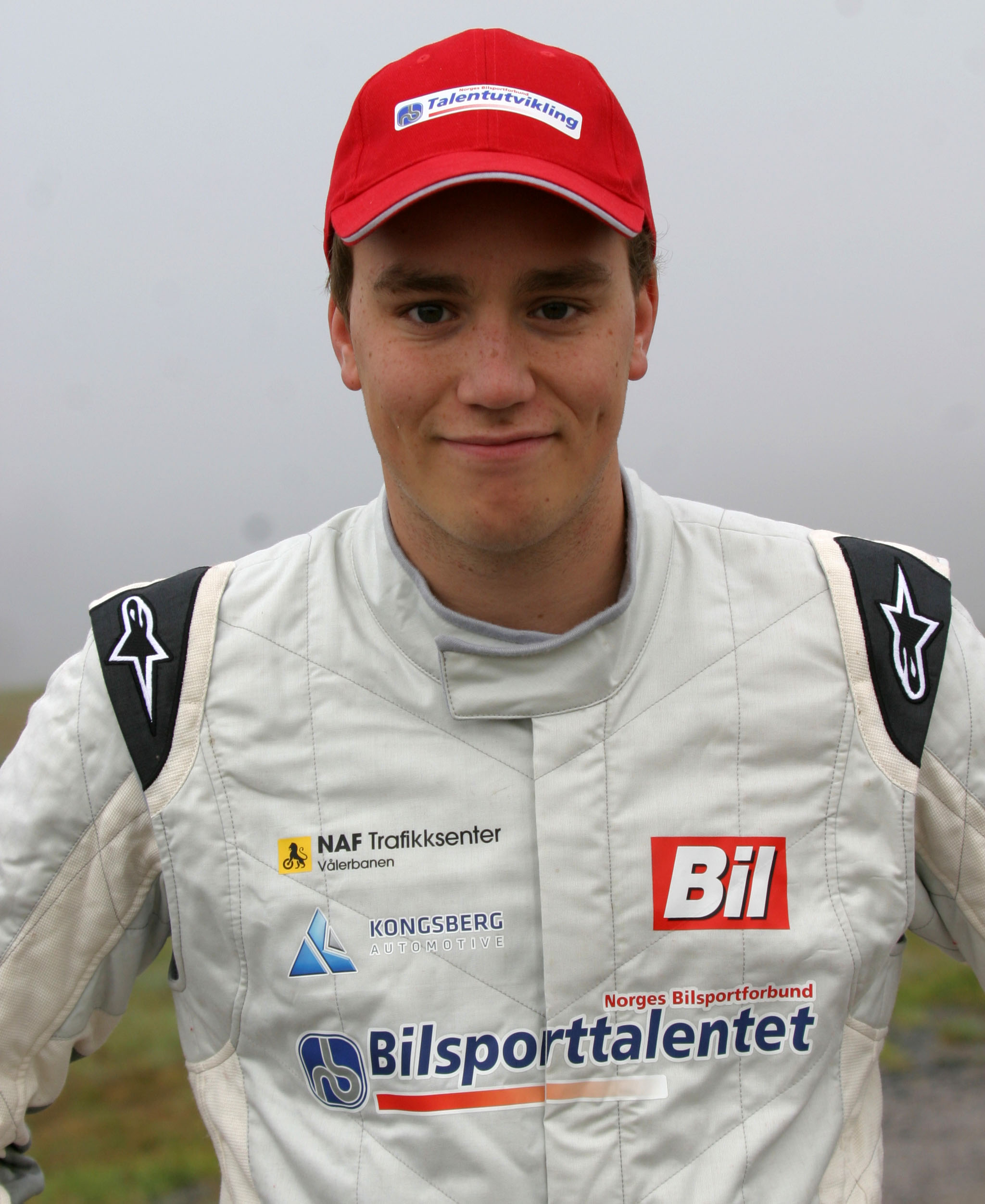 Norwegian rallycross driver Ole Christian Veiby.